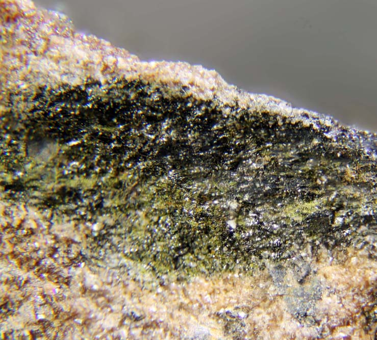 Dark green crystals of the rare mineral redledgeite from one of the only three known localities worldwide: Saranovskii Mine, Gorozavodskii, Urals Region, Russian Federation.